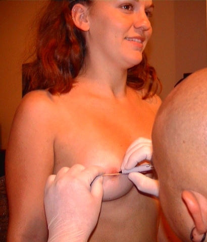 One Stop Piercing Shop: Piercing a female breast